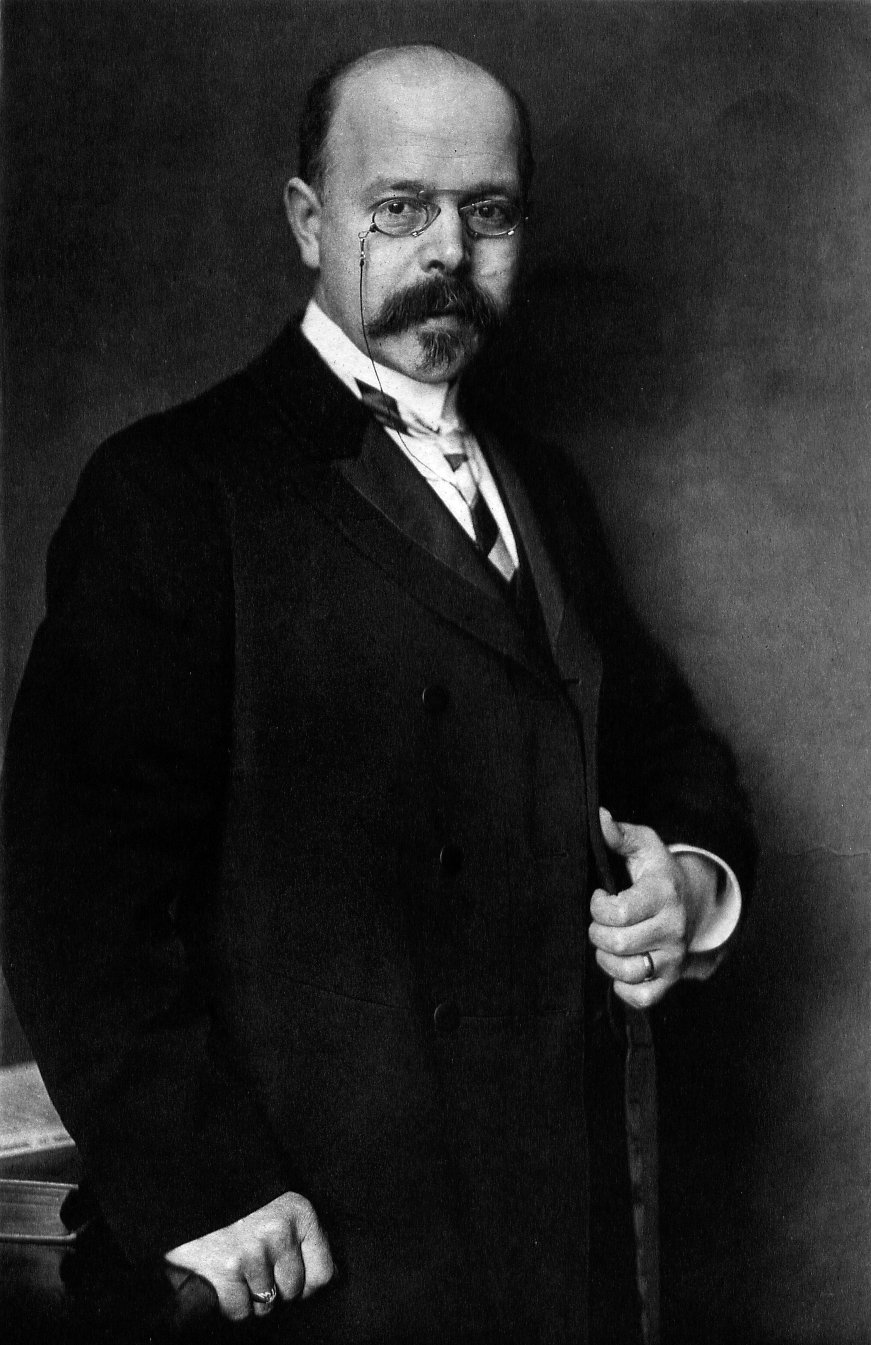 Portrait of Walther Hermann Nernst, photogravure.